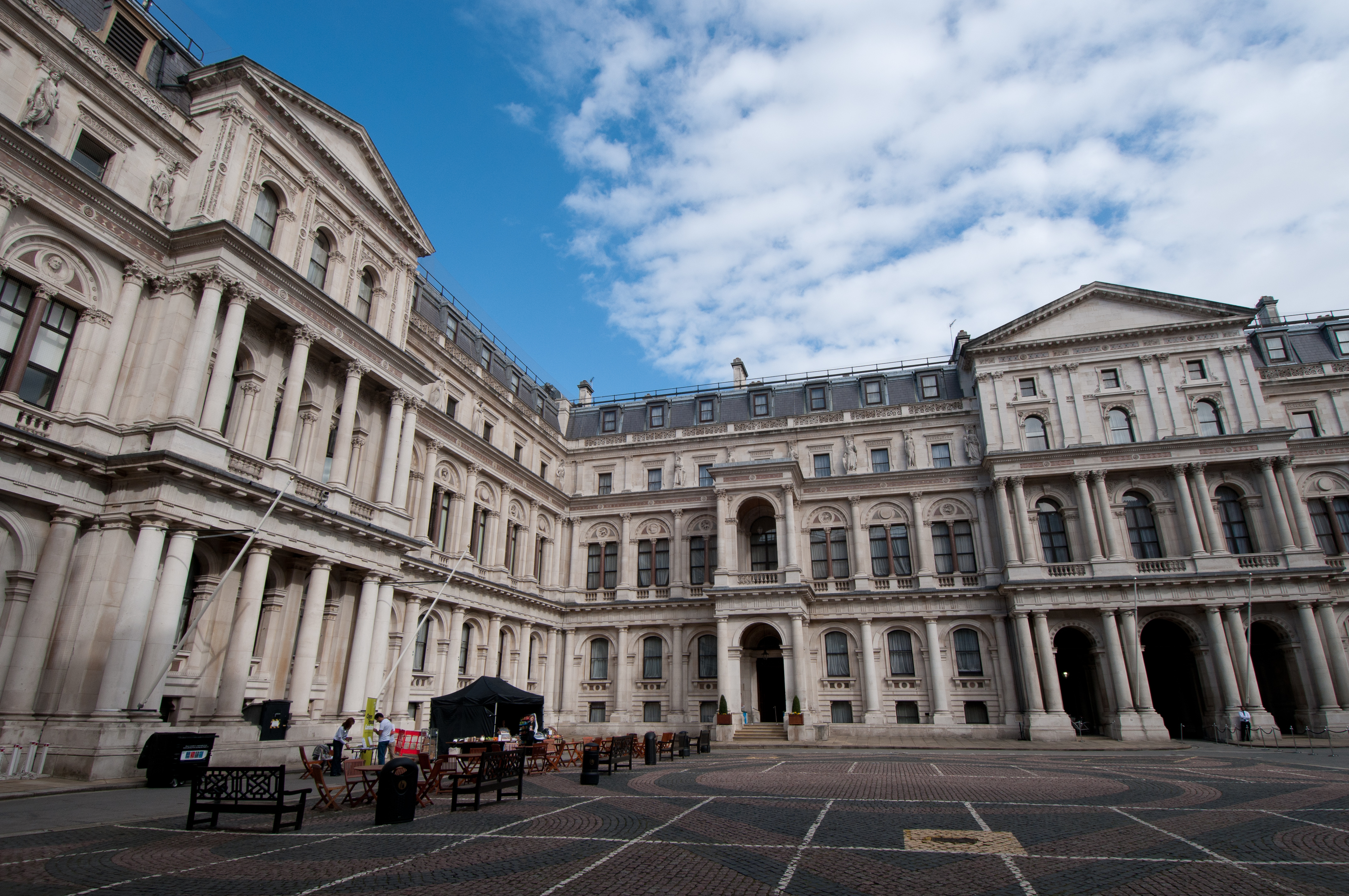 Inside the Foreign Office, London.